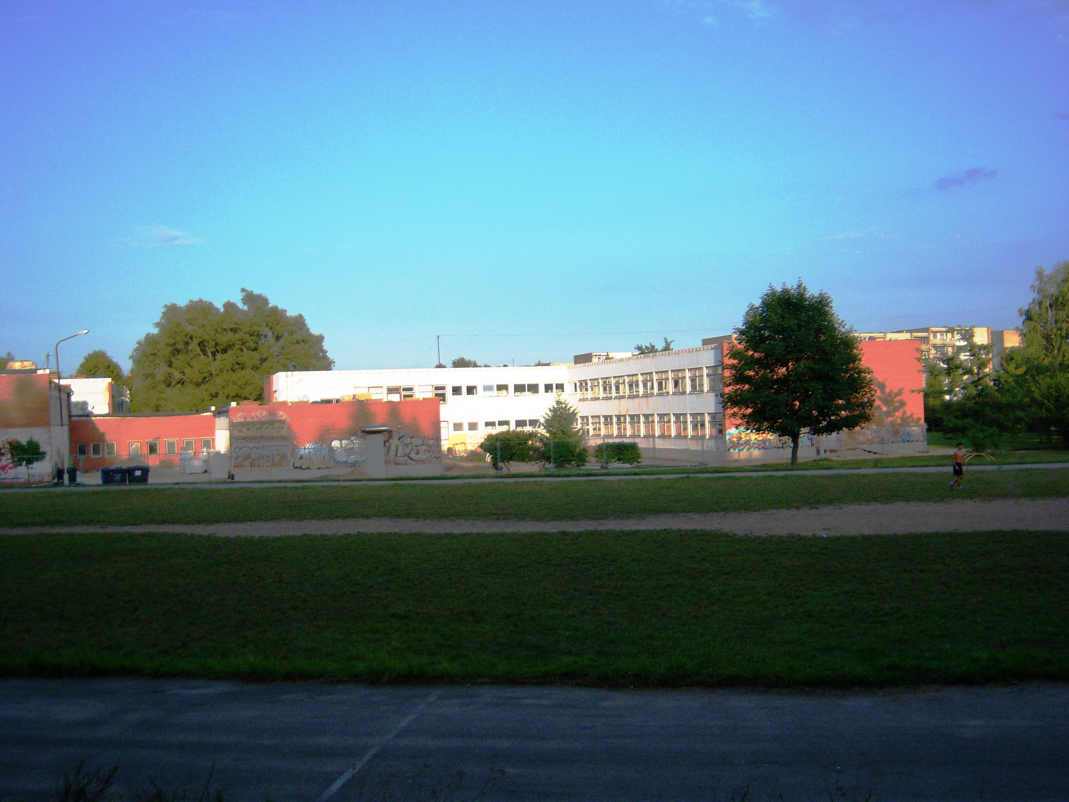 Gymnasium in Pagiriai, Vilnius District, Lithuania